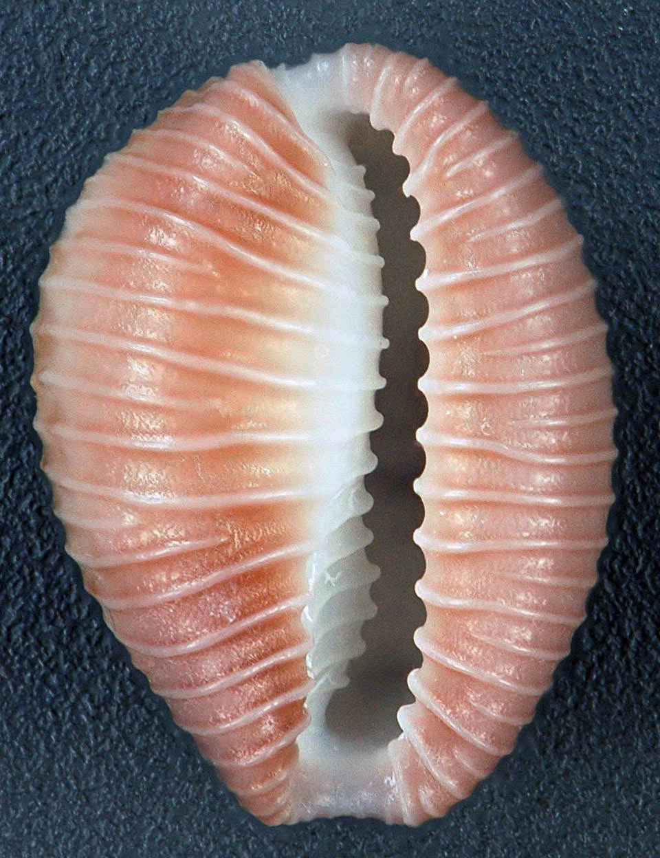 Niveria pediculus (Linnaeus, 1758) - apertural view of a coffee-bean trivia snail shell, 1.35 cm tall. Family Triviidae - trivias generally have a cowry-like shell shape, with the shell’s spire covered as a result of sub-planispiral coiling. Unlike cowries, which have a smooth glossy adapertural shell surface, trivias have prominently ridged and grooved shell surfaces. Trivias prey on tunicates and some octocorals.